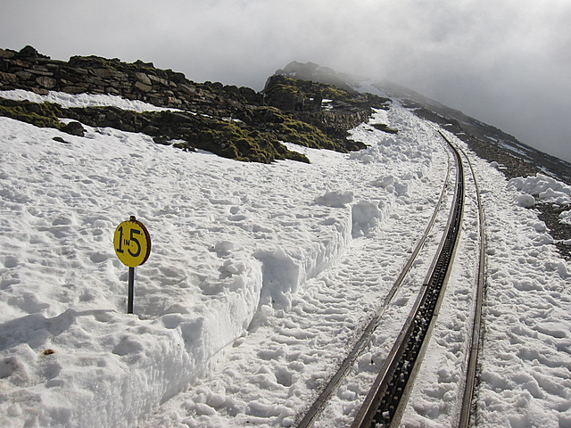 One in five to the station on Yr Wyddfa The sign at the side of the Snowdon Mountain railway indicates that the gradient is 1 in 5 from here to the station. The footpath to the summit is higher up to the left but the gradient isn't any better.